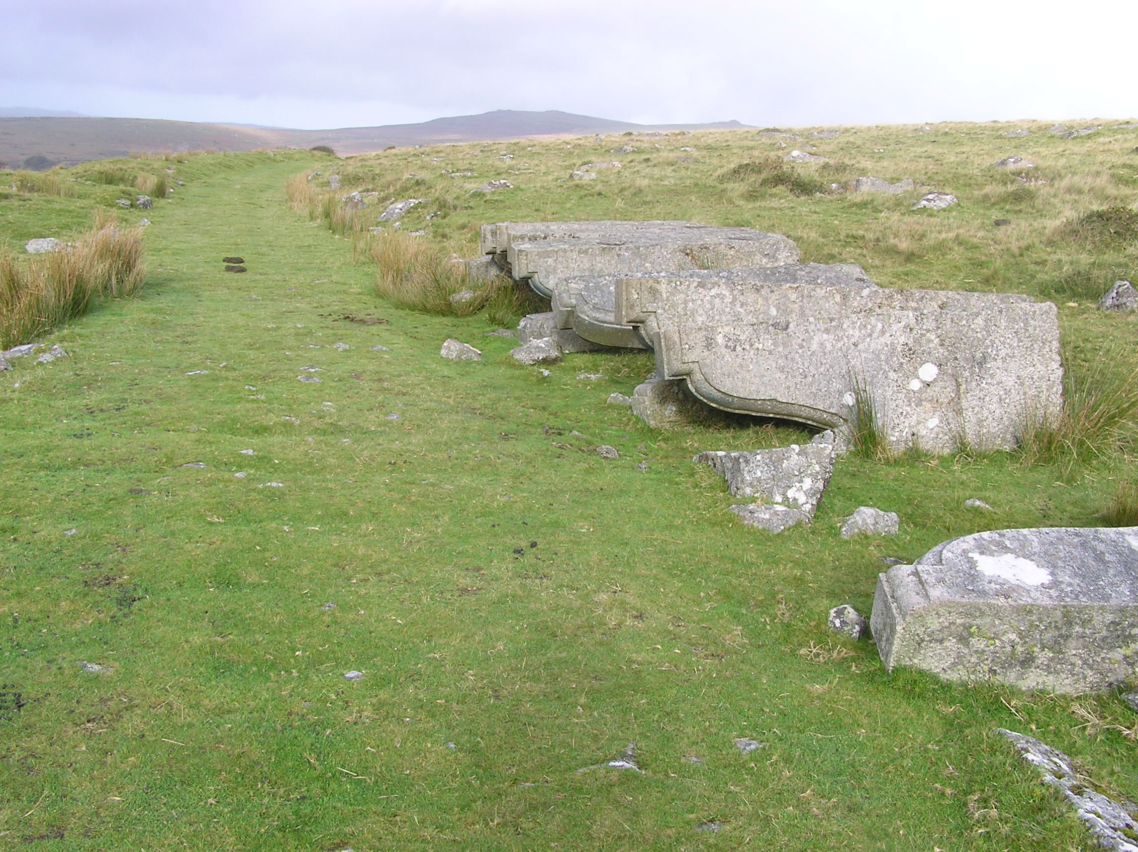 On Plymouth & Dartmoor Railway England abandoned corbels Royal Oak